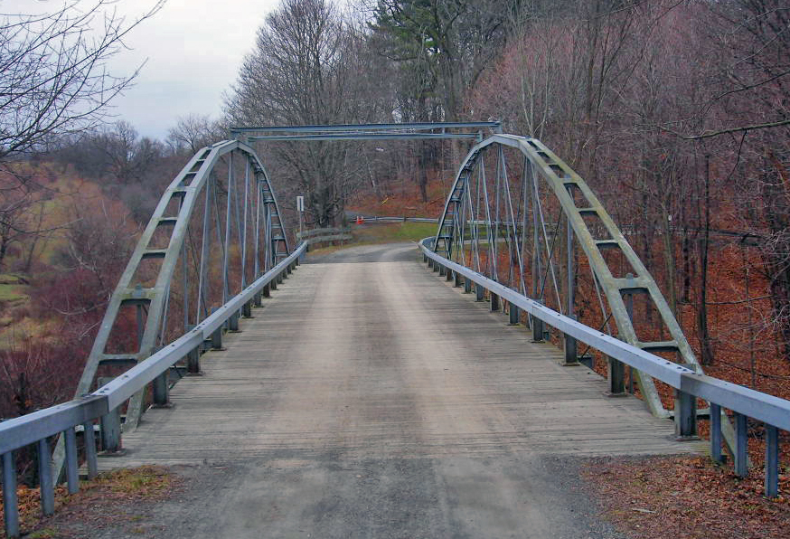 View from west approach of Whipple Cast and Wrought Iron Bowstring Truss Bridge, Albany, NY, USA